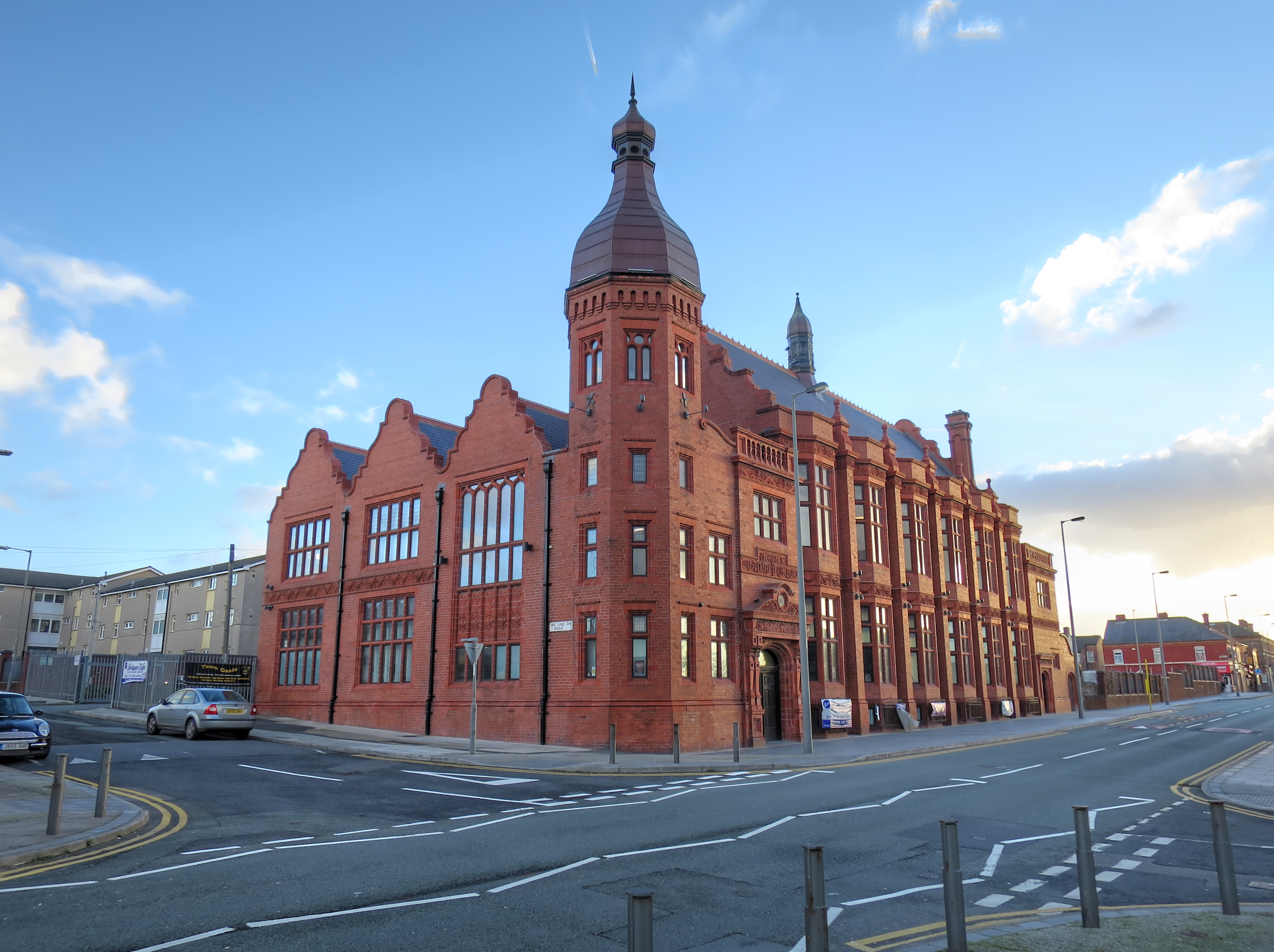 A picture of the restored Florence Institute building taken on Christmas Eve 2014.